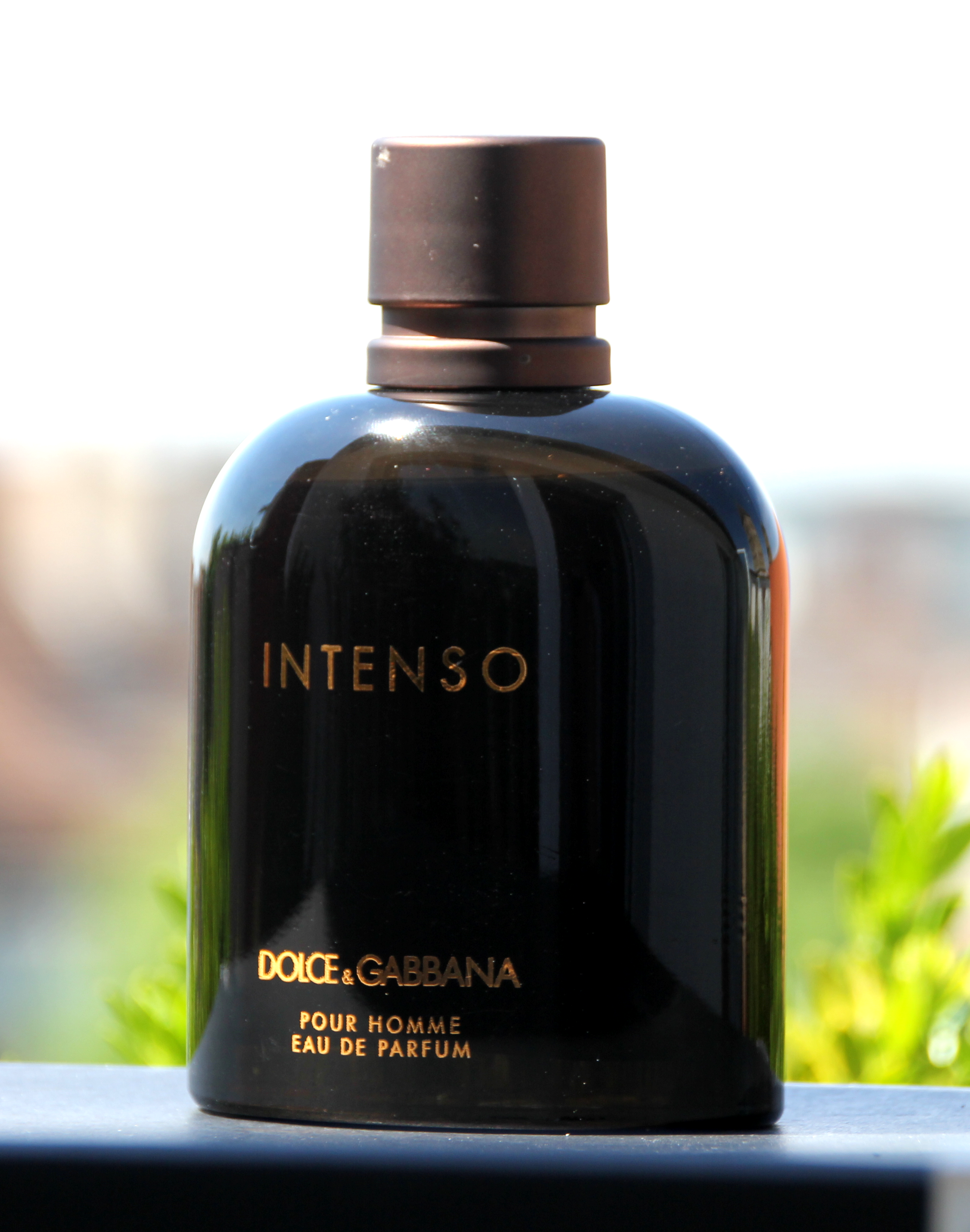 Dolce & Gabbana Intenso Pour Homme Eau De Parfum 6,7 fl. oz.